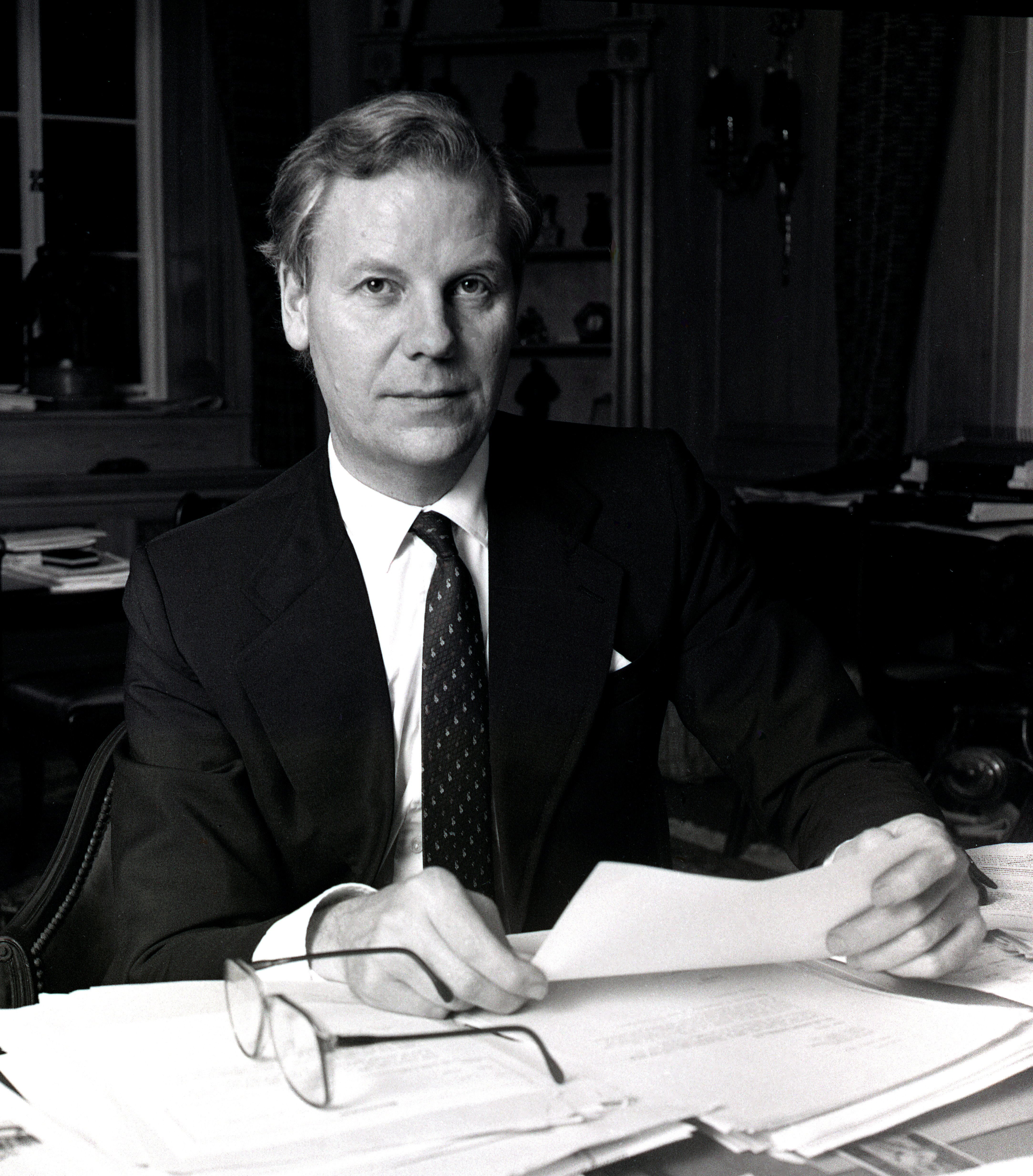 portrait of David Kirch in his study in Jersey C.I.